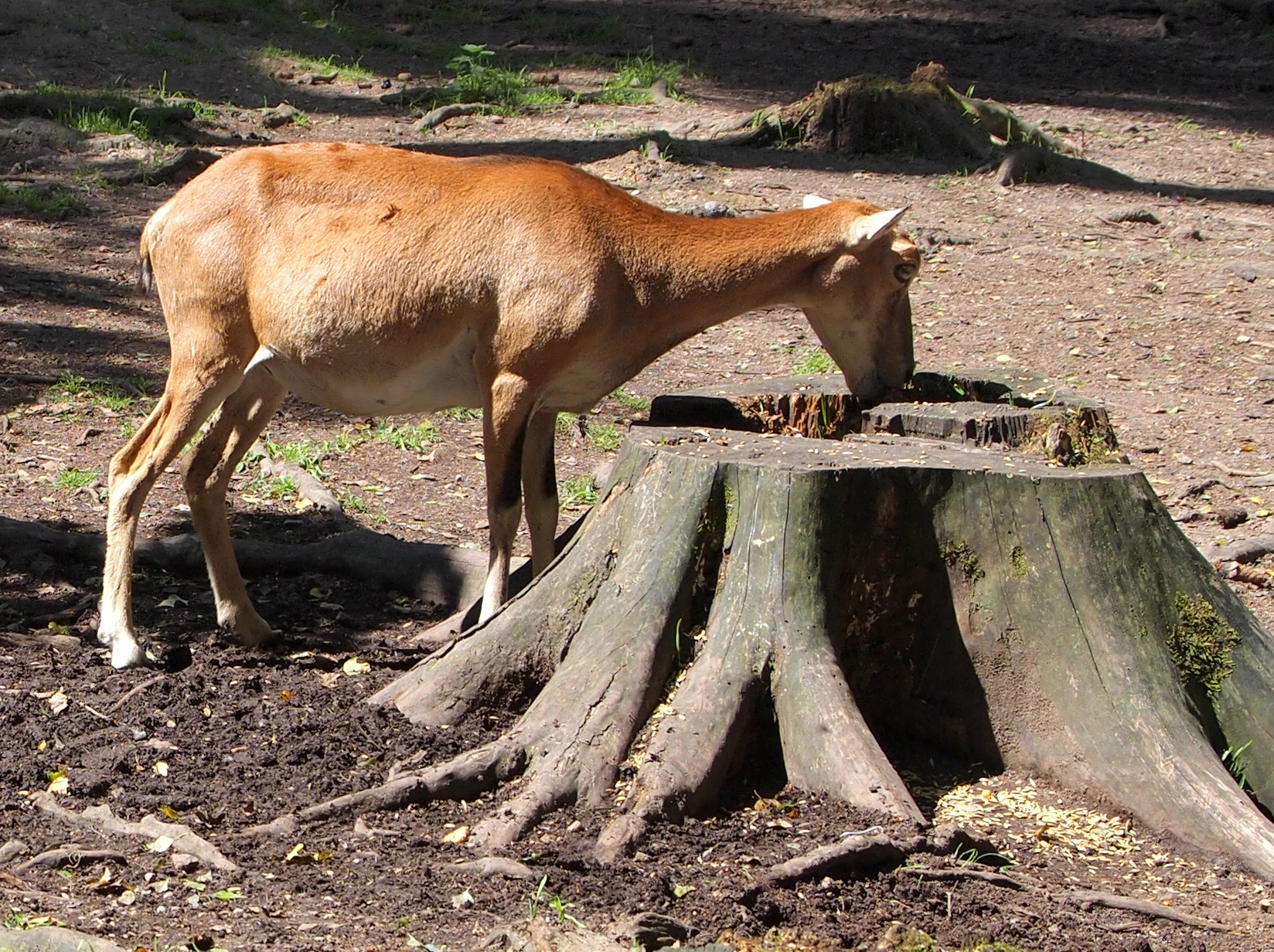 Wildpark Poing. This photograph was taken with a Olympus E-PL1.